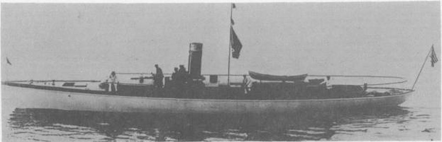 The yacht Tramp prior to her United States Navy service as the patrol vessel